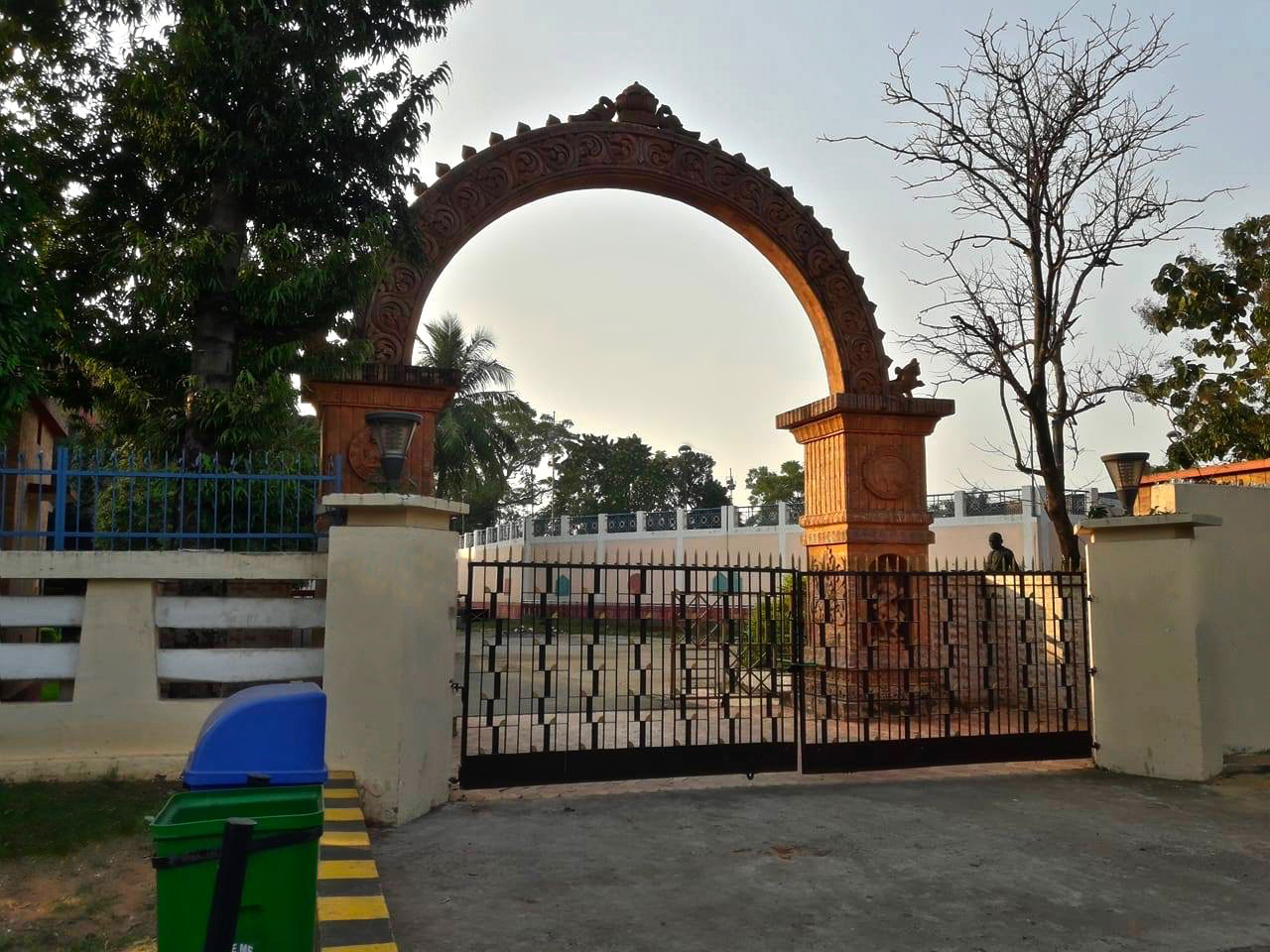 Utkal Sangeet Mahavidyalaya, Bhubaneswar. ଓଡ଼ିଆ: ଉତ୍କଳ ସଙ୍ଗୀତ ମହାବିଦ୍ୟାଳୟ, ଭୁବନେଶ୍ୱର ।